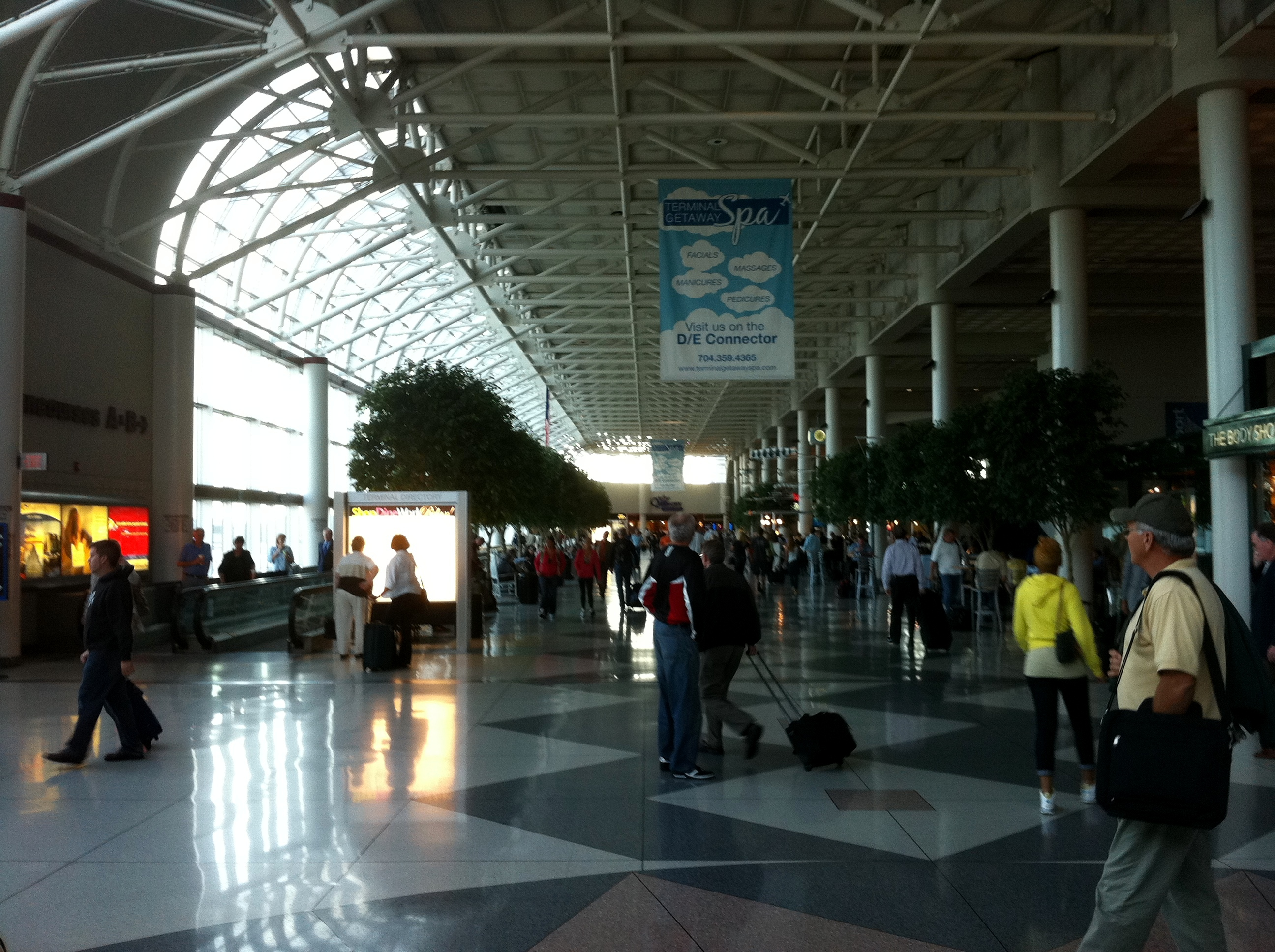 Inside the main atrium at Charlotte/Douglas International Airport